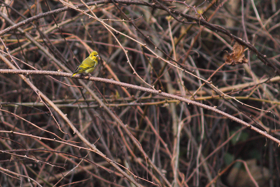 Tibetan Serin from Eaglenest Wildlife Sanctuary in Arunachal Pradesh